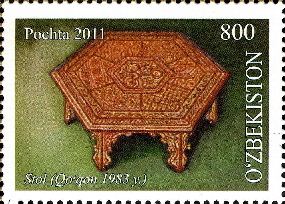 Stamps of Uzbekistan, 2011